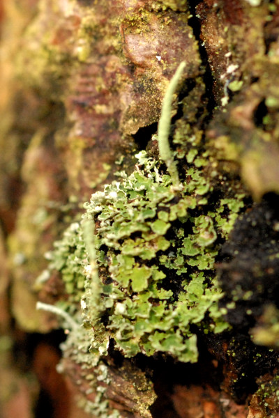 Cladonia coniocraea from Commanster, Belgium. If you think this is a different taxon, please contact James Lindsey.